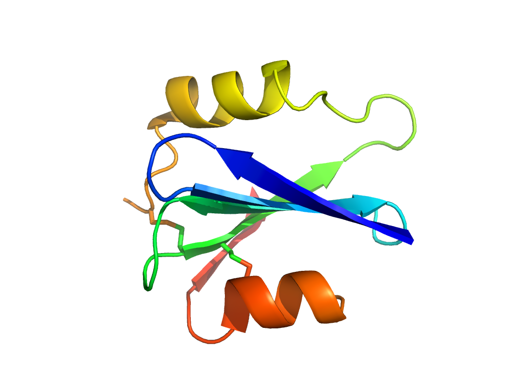 BRICHOS domain of human SFTPC, ECOD Pymol rendering